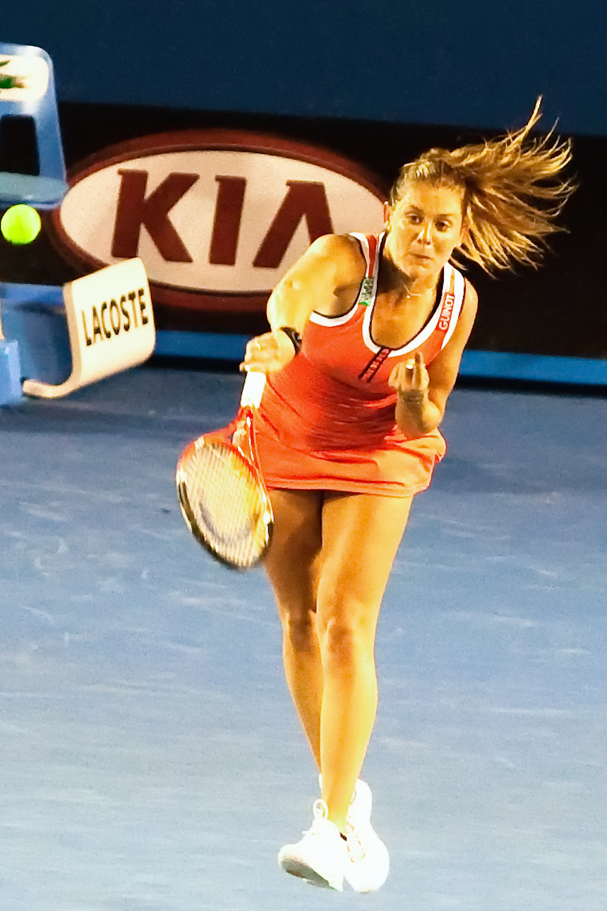 Julie Coin in action on day two of the Australian Open, Melbourne.